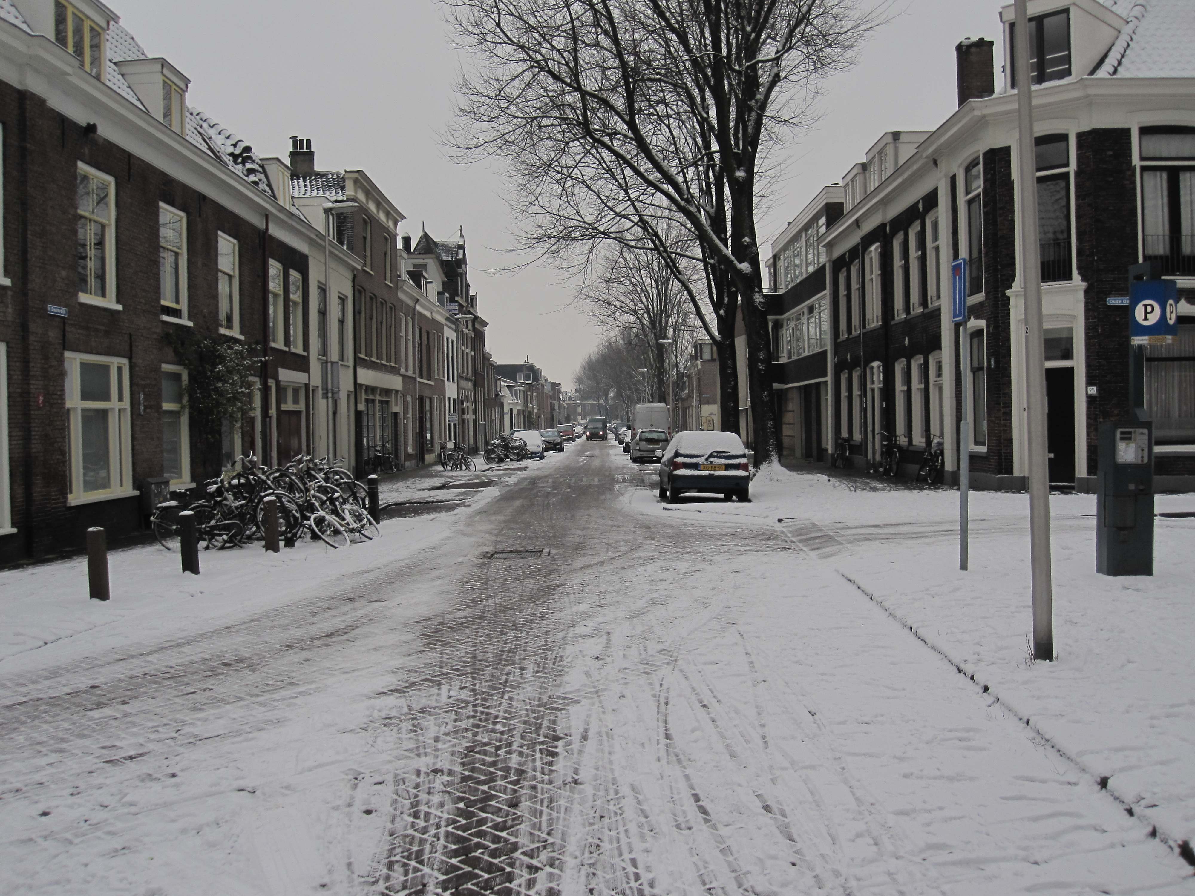 View over the 1e Daalsedijk, Utrecht, on the morning of Dec. 17 2009, after the first snowfall of the year.